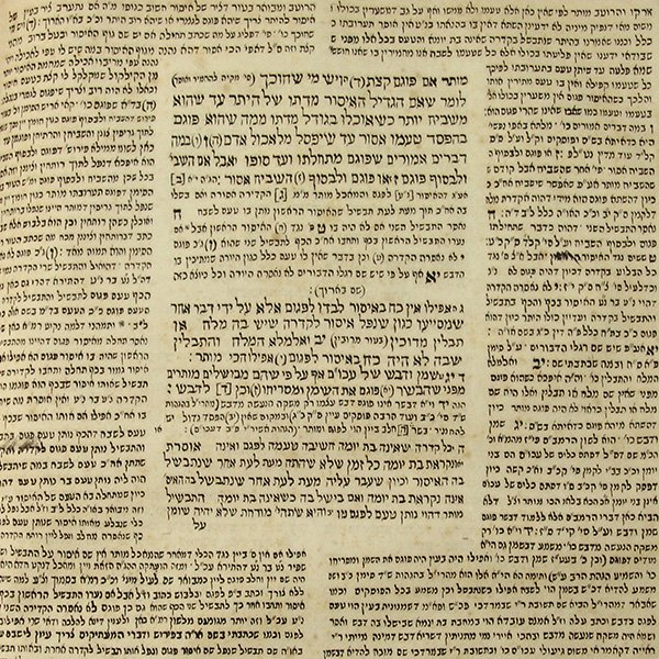 Shulchan Aruch Yoreh Deah, Lemberg, 1870.